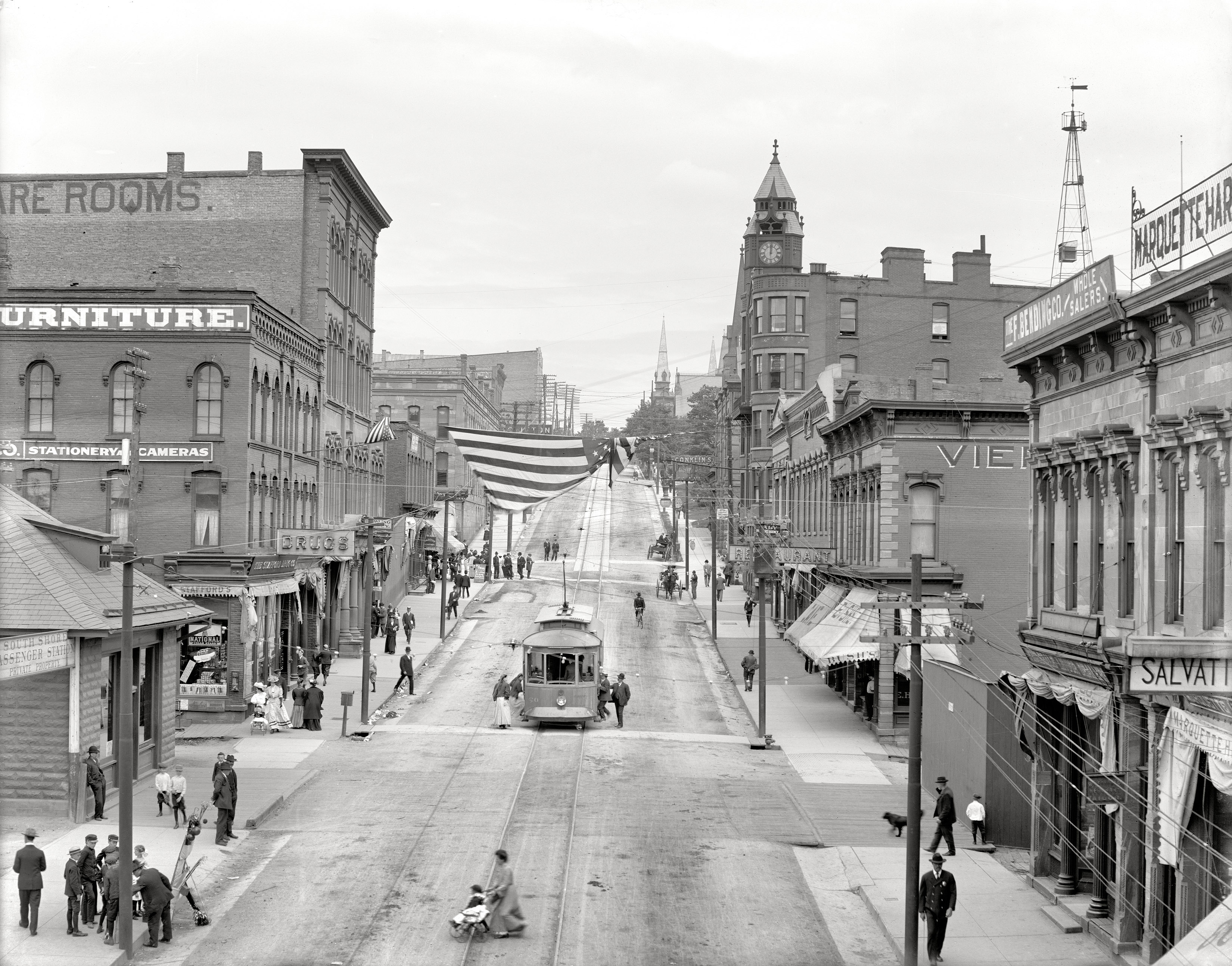 Front Street, Marquette, Michigan, United States